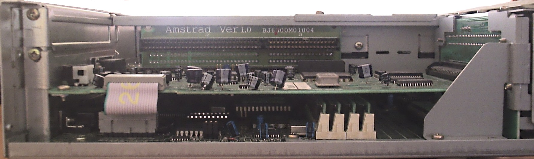 Side view of the Amstrad Mega PC showing the ISA slot, card and RAM positioning. Picture was taken by myself of my own equipment and released into public domain.